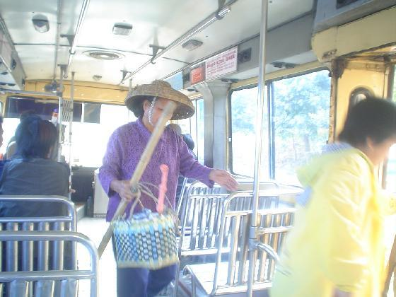 Zhuhai, inside of a bus Zhuhai, Guangdong Province, China 2006 I took the picture.